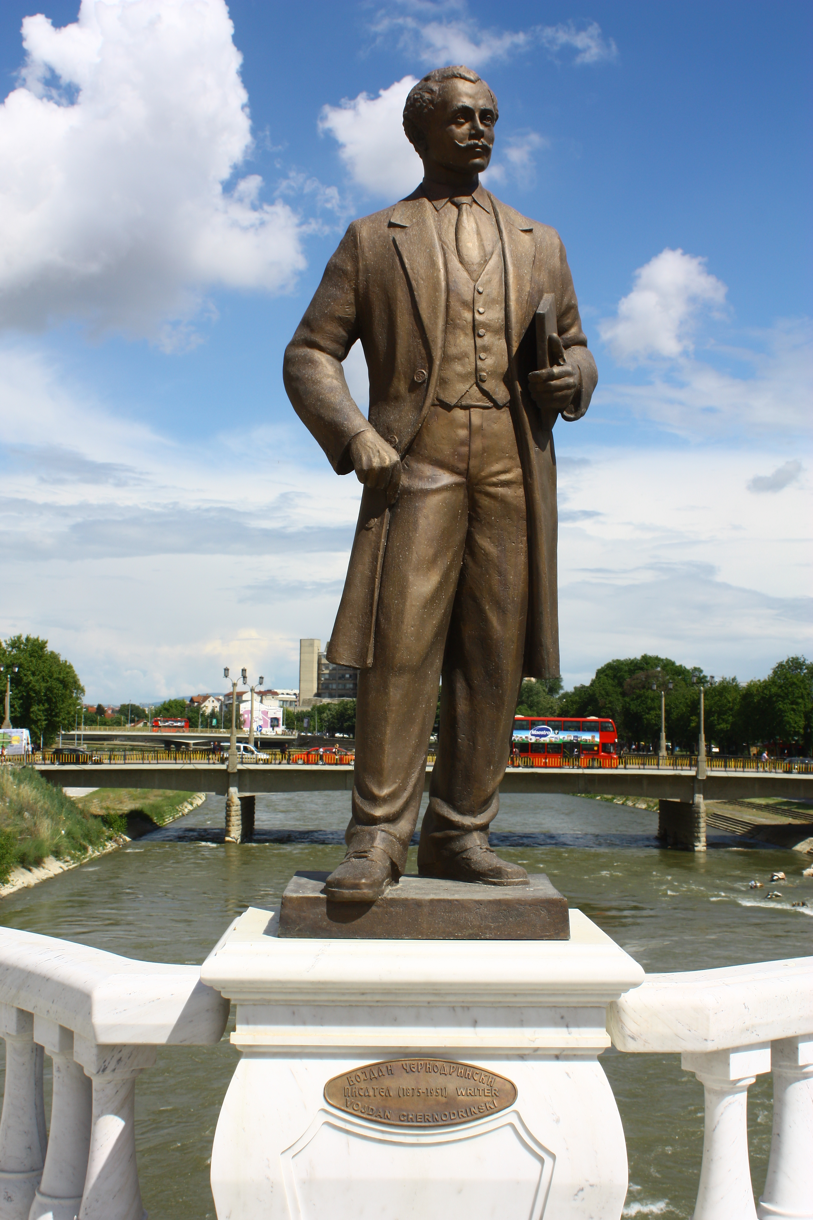 Sculpture od the Bridge of Arts in Skopje, Macedonia This image is uploaded as part of the picture contest Wiki Loves Cultural Heritage in Macedonia 2013. English | македонски | +/−